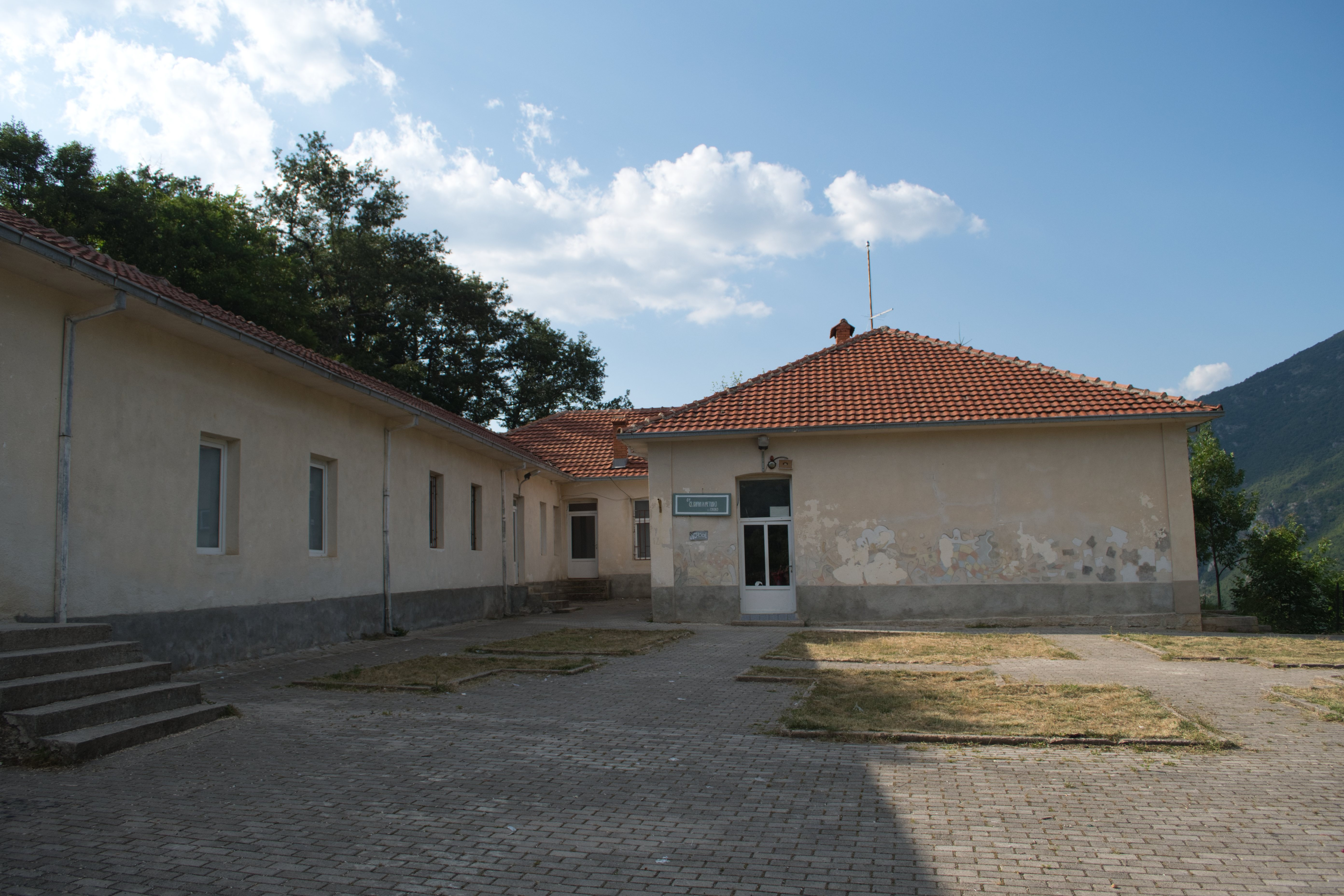 Ss. Cyril and Methodius Primary School in the village of Lukovo